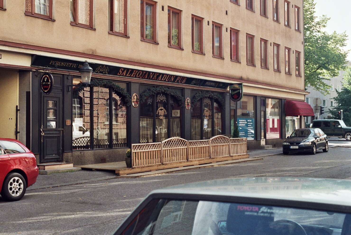 Salhojankadun Pub alongside the Salhojankatu street in the Tammela district of the city of Tampere in Finland. Having opened its doors in 1969, the restaurant is often said to be the oldest still operational pub in Finland.